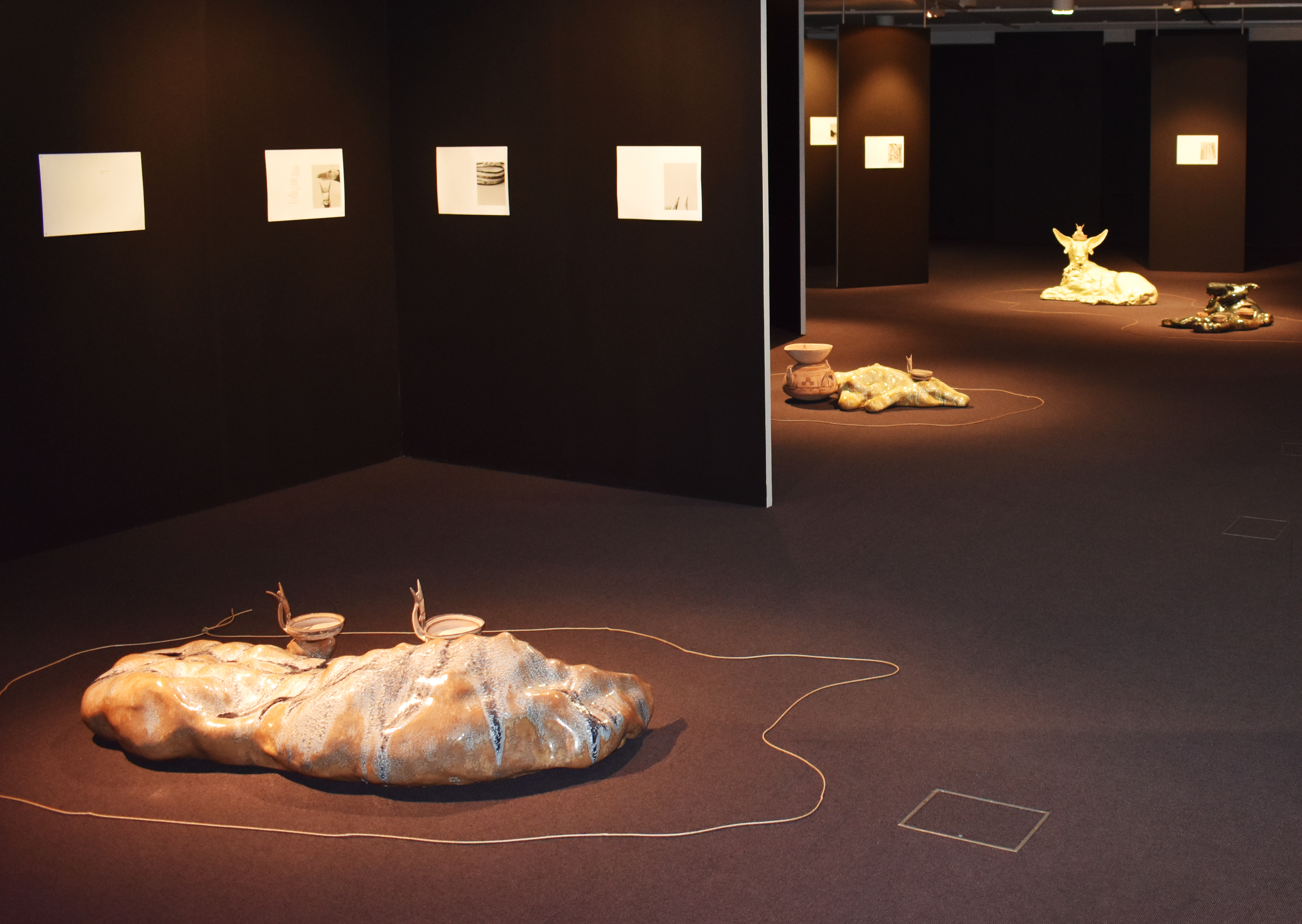 Studioausstellung im HETJENS - Deutsches Keramikmuseum mit Skulpturen von Markus Karstieß und daunisch-geometrischer Keramik (2017)